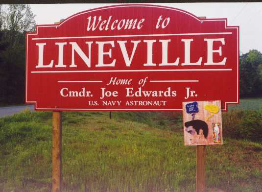 Lineville Alabama USA town sign Clay County Alabama